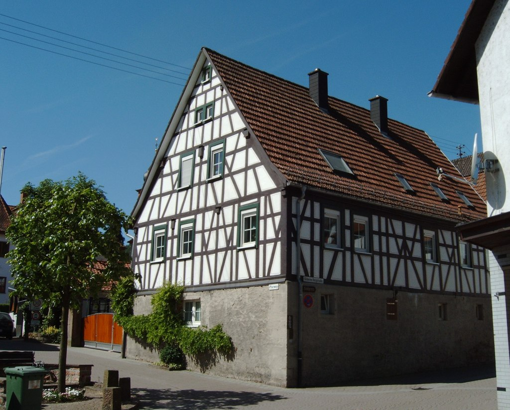 Old house in Heiligkreuzsteinach)